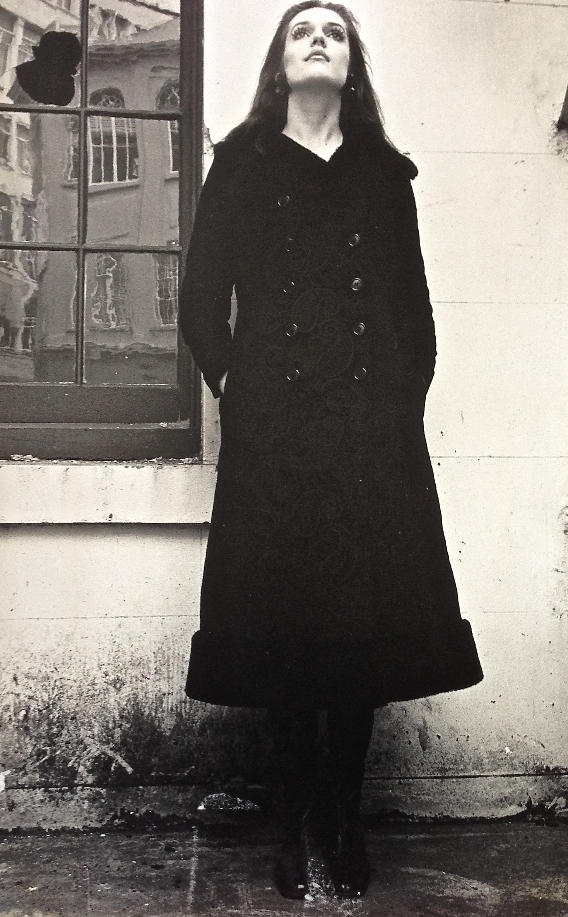 New Zealand model and writer Judith Baragwanath in the early 1970s. Photographed in Auckland by fashion photographer Max Thomson.